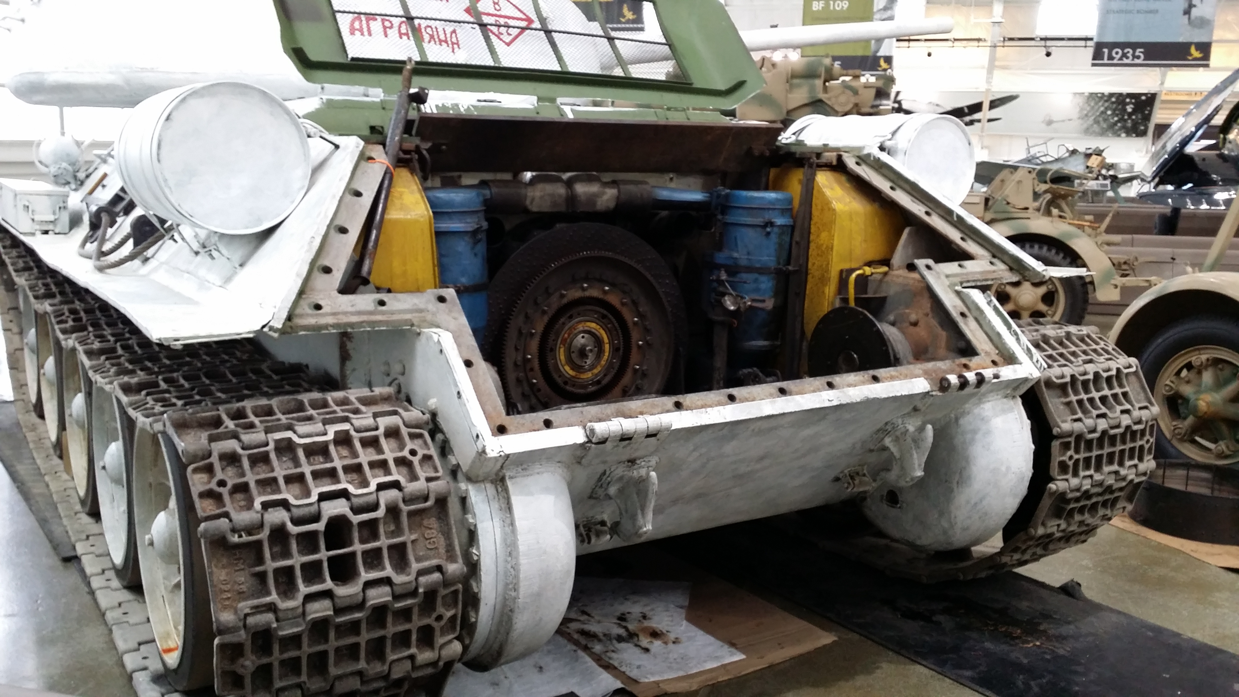 Paine Field-Lake Stickney, WA, USA